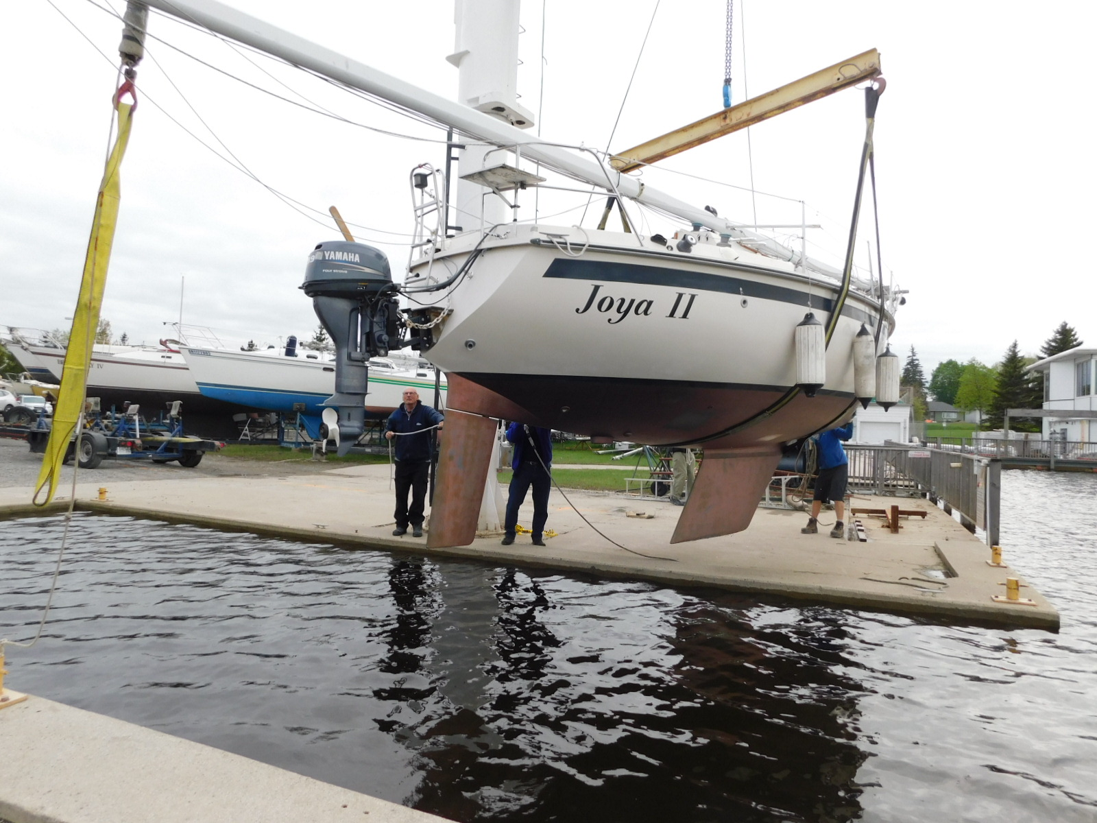 An Edel 820 sailboat named Joya II on the crane hoist, being launched.